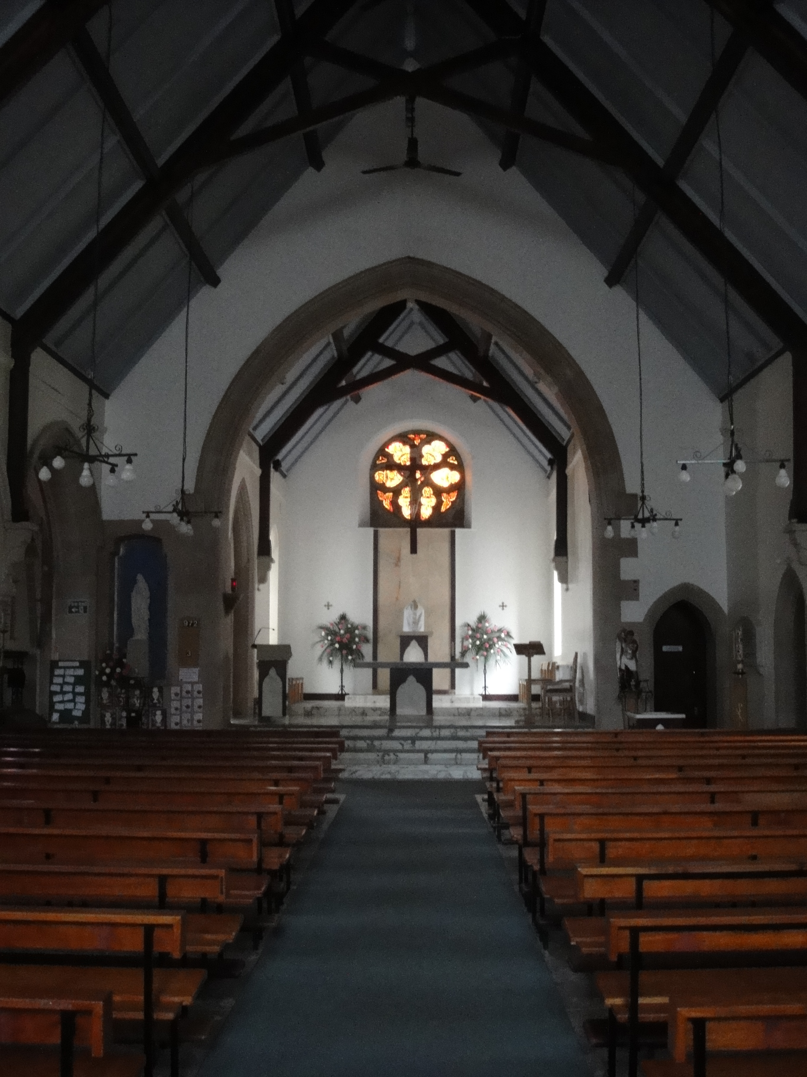 The catholic church of St Michael in Linlithglow.